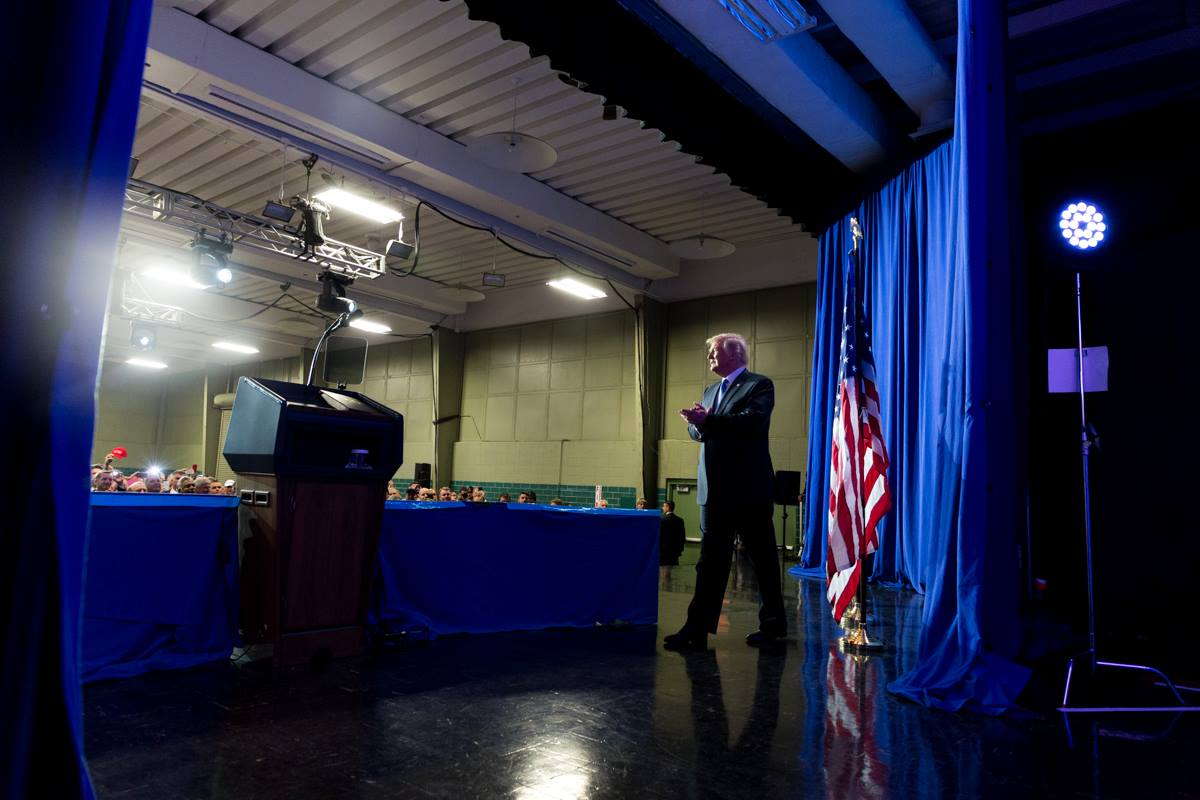 President Donald J. Trump delivers remarks on tax reform | September 27, 2017 (Official White House Photo by Shealah Craighead)